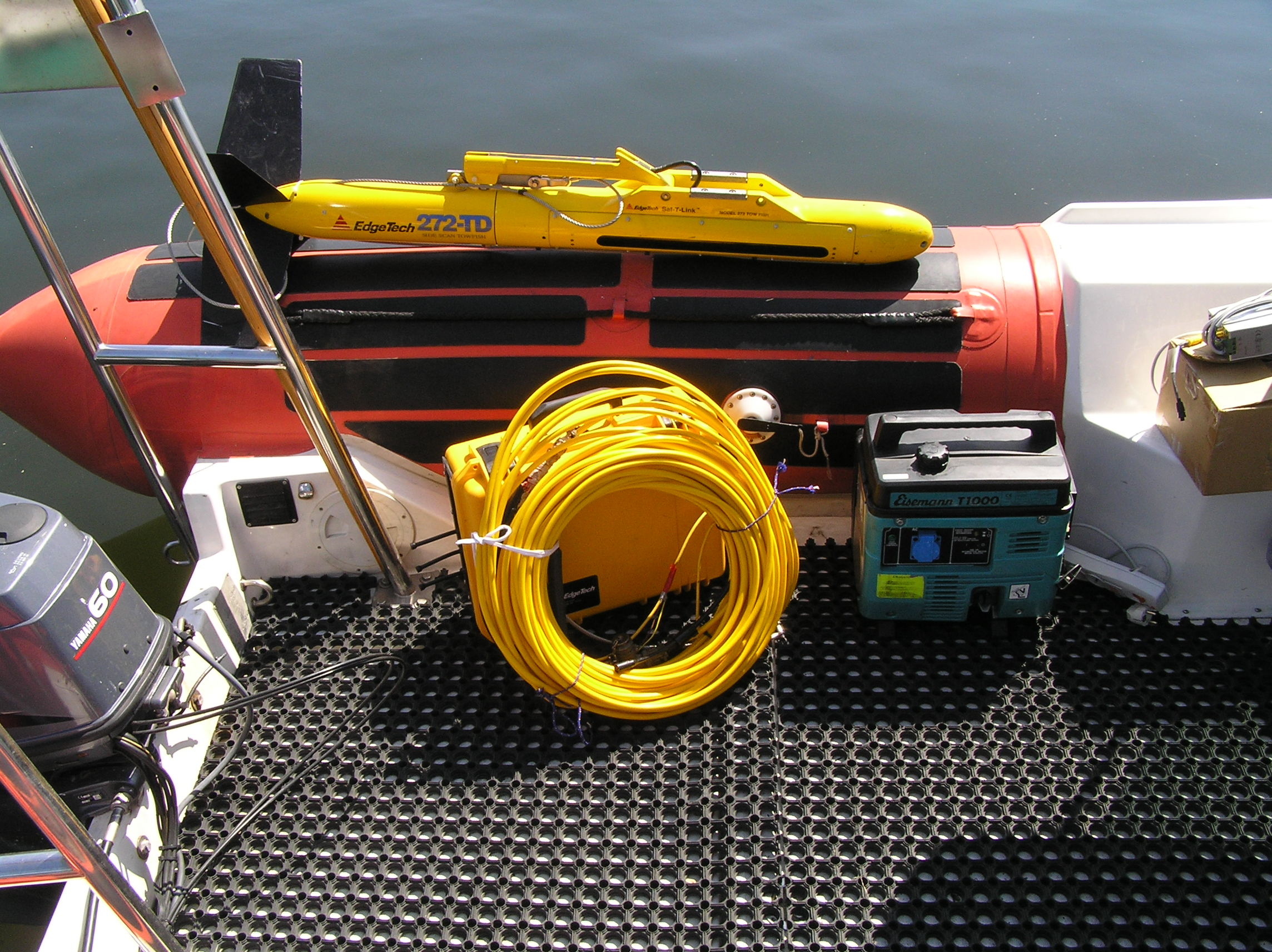 EdgeTech 272-TD towfish.